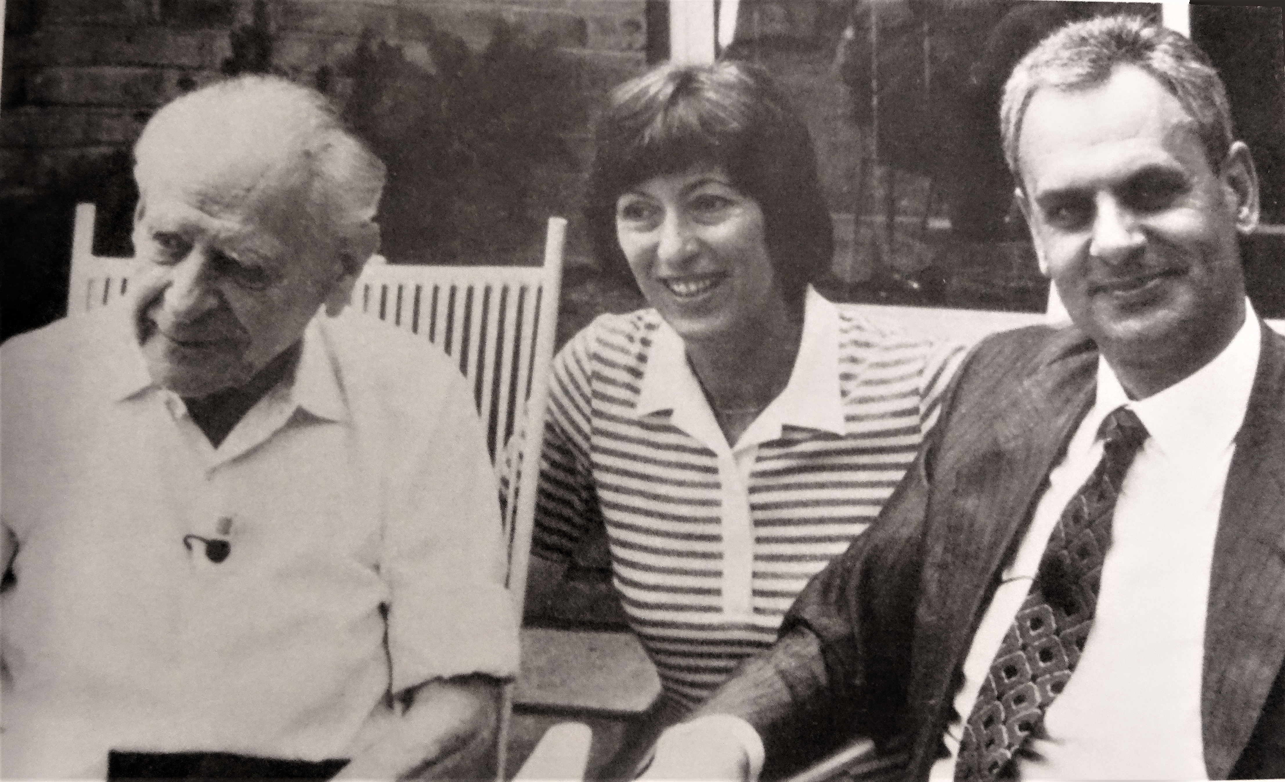 Karl Popper with Melitta Mew and Marcello Pera at Kenley (year 1986)